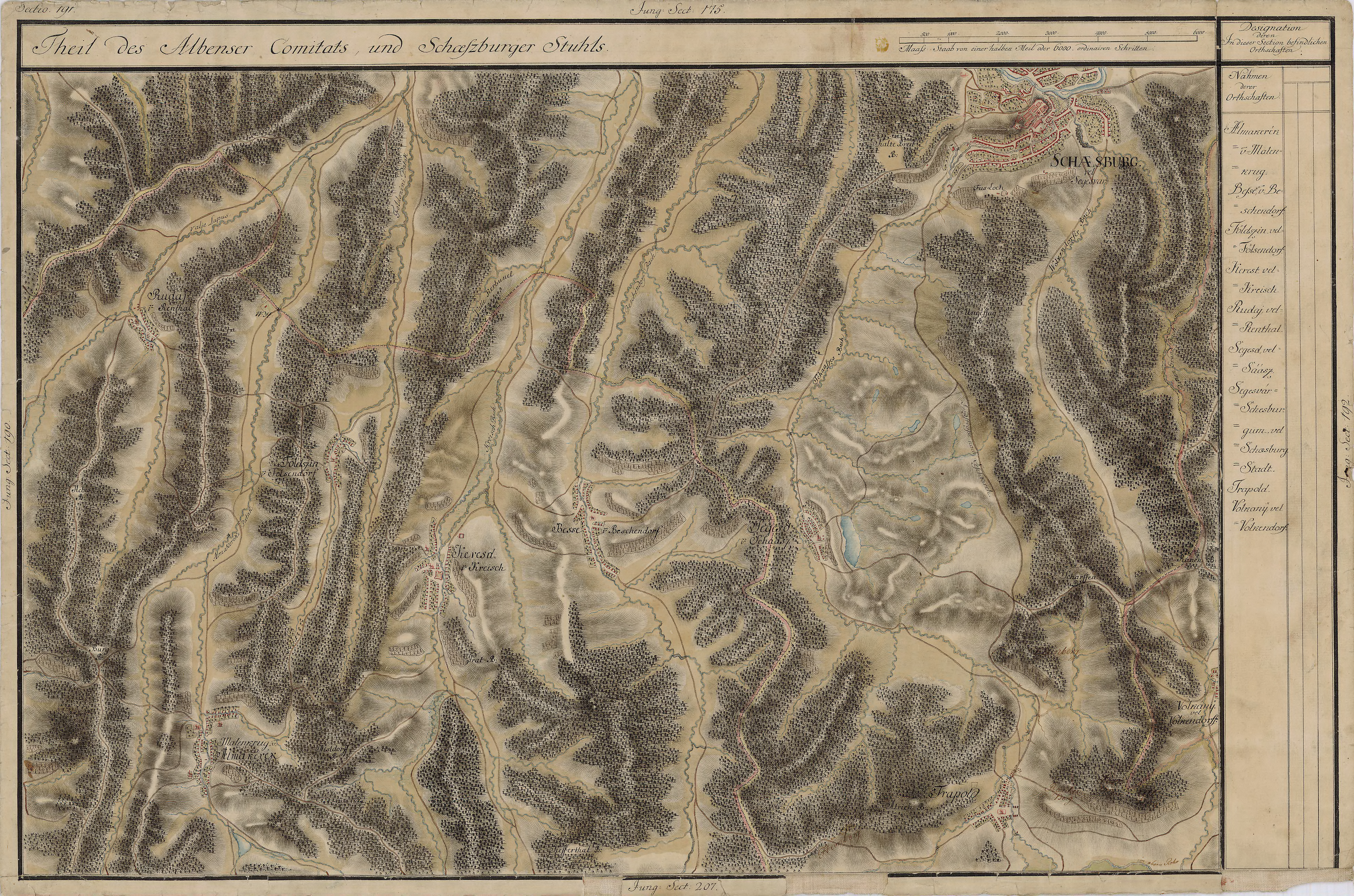 Grand Duchy of Transylvania, 1769-1773. Josephinische Landaufnahme pg.191